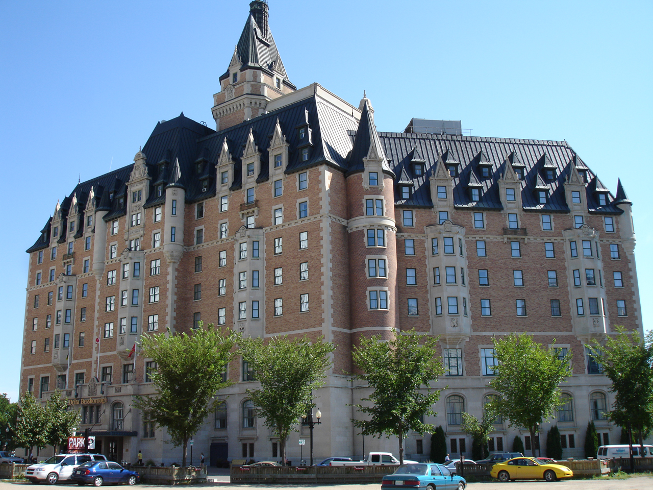 The front of the Delta Bessborough Hotel in Saskatoon, Saskatchewan, Canada, as of August 2006.